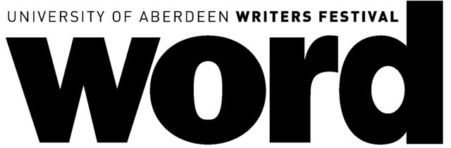 Generic logo of the Word Festival